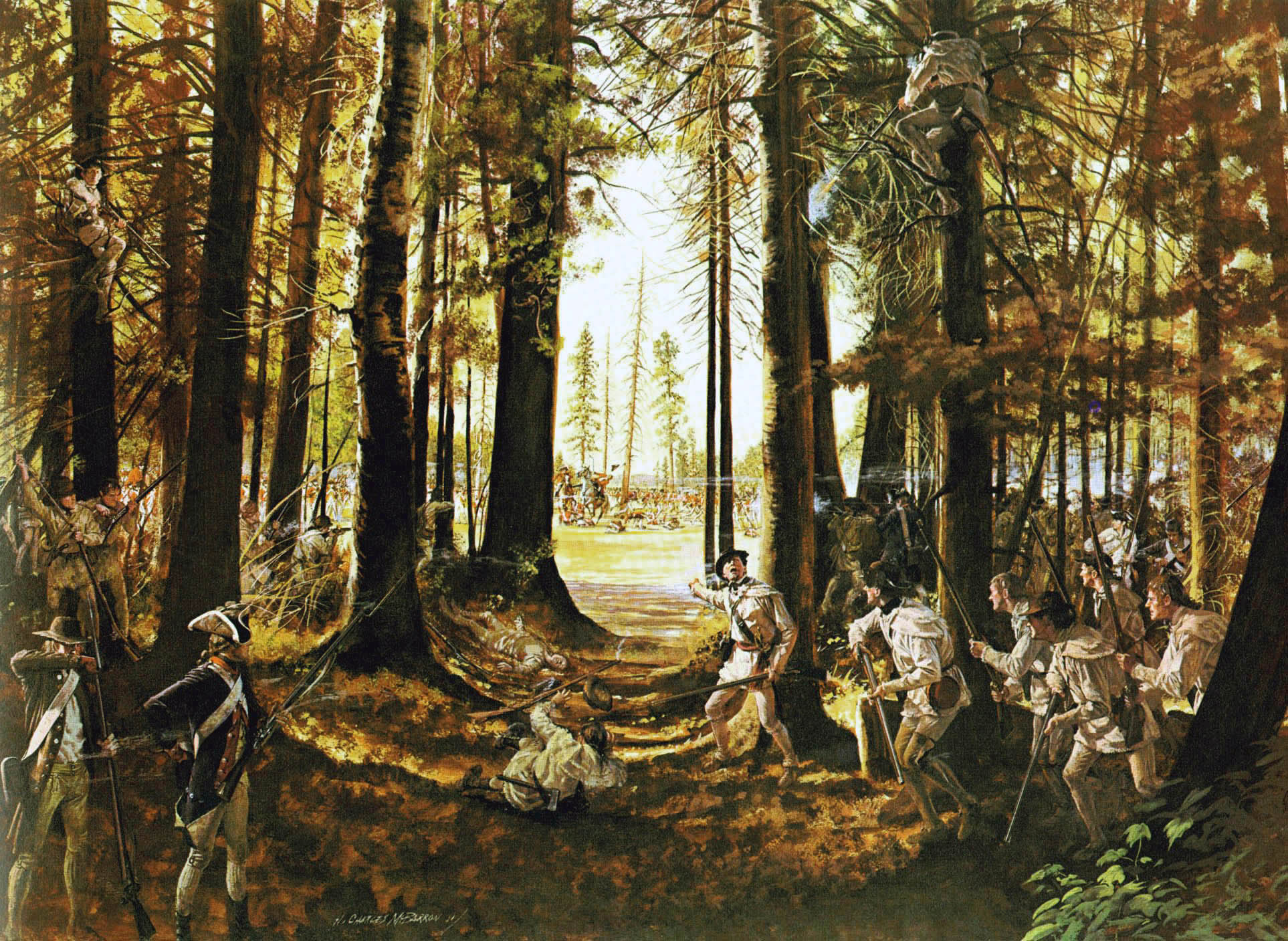 Depiction of American riflemen from Col. Daniel Morgan's Provisional Rifle Corps at the Battle of Saratoga, October 7, 1777